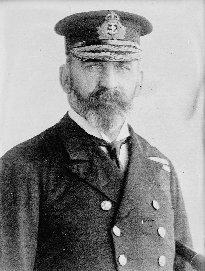 Bain News Service,, publisher. Adm. Sir Arthur Moore [between ca. 1910 and ca. 1915] 1 negative : glass ; 5 x 7 in. or smaller. Notes: Title from data provided by the Bain News Service on the negative. Photograph shows Admiral Sir Arthur William Moore (1847-1934) who served as an officer of the Royal Navy. (Source: Flickr Commons project, 2011) Forms part of: George Grantham Bain Collection (Library of Congress). Format: Glass negatives. Repository: Library of Congress, Prints and Photographs Division, Washington, D.C. 20540 USA, General information about the Bain Collection is available at Higher resolution image is available (Persistent URL): Call Number: LC-B2- 3176-14